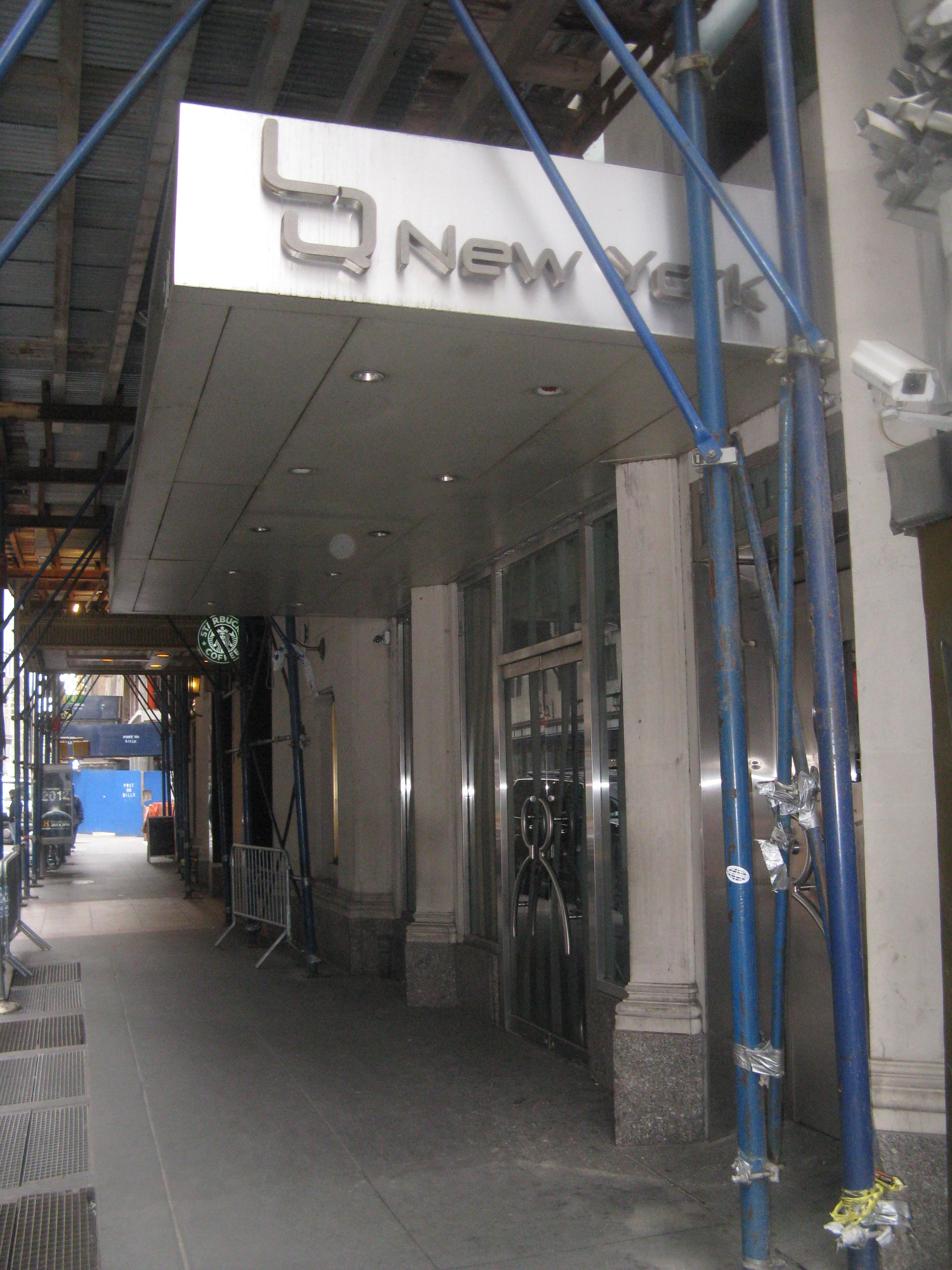 Latin Quarter Nightclub in New York City in January 2009